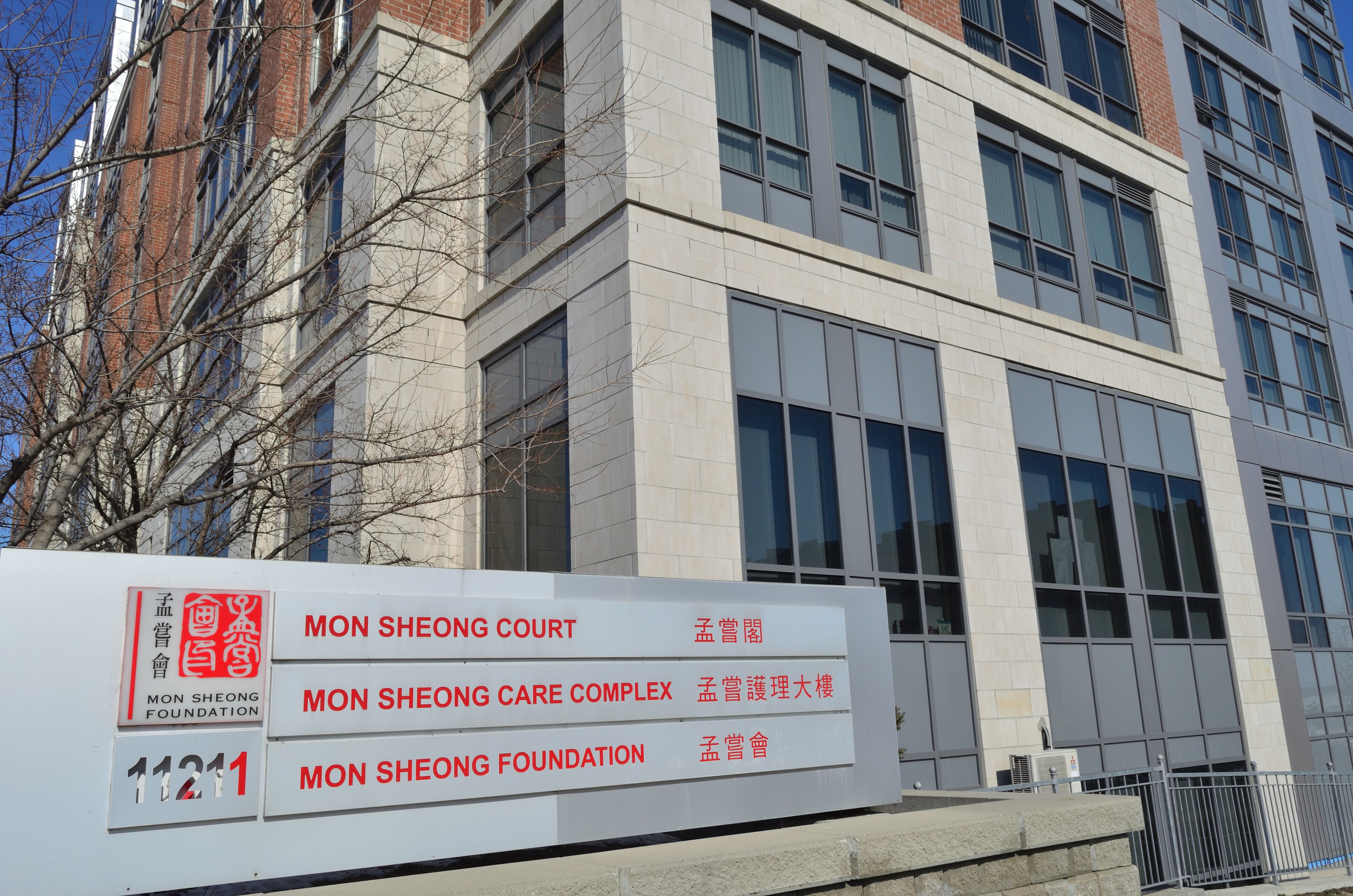 Mon Sheong Foundation - Address: 11199 Yonge St, Richmond Hill, ON L4S 1L2